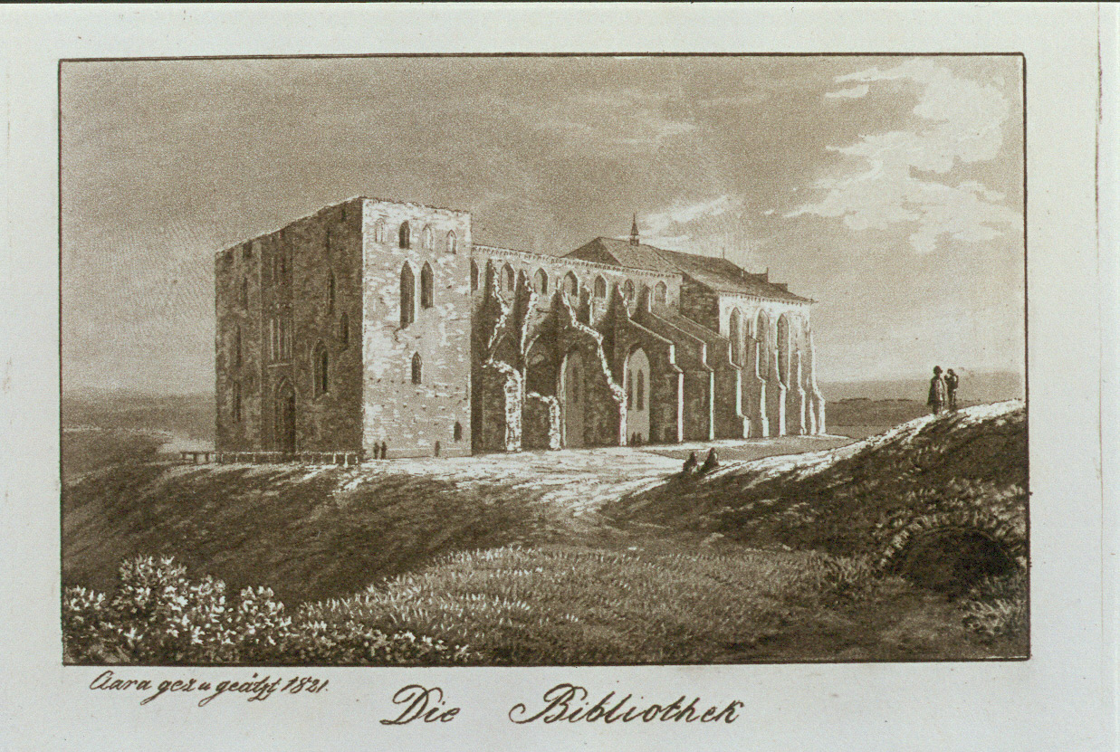 Tartu Cathedral turned to library. 1821 engraving.